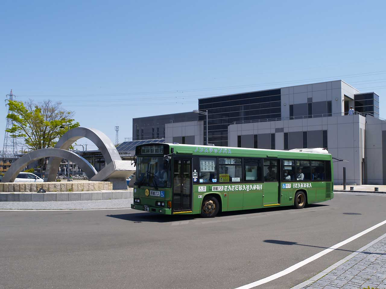 Fleet of Tutuji Kanko Bus, for route bus between Tatebayashi and Itakura. Model: Hino Rainbow HR KL-HR1JNEE License plate: GMG200 KA-298 Place: Itakura Toyo-dai Mae Station, Itakura Town, Gunma Japan